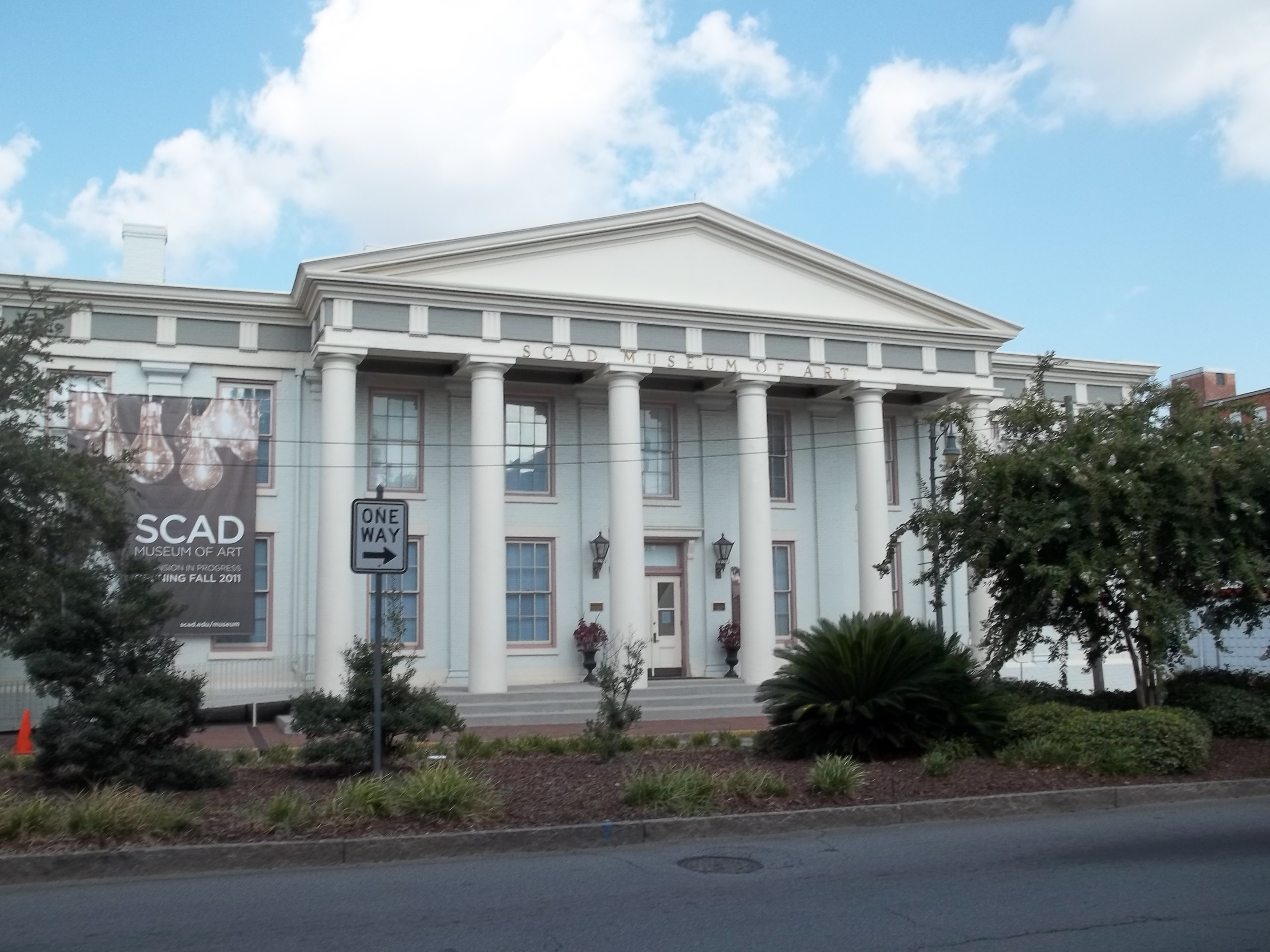 Savannah, Georgia: Old Central of Georgia Railway headquarters, now home of the SCAD Museum of Art